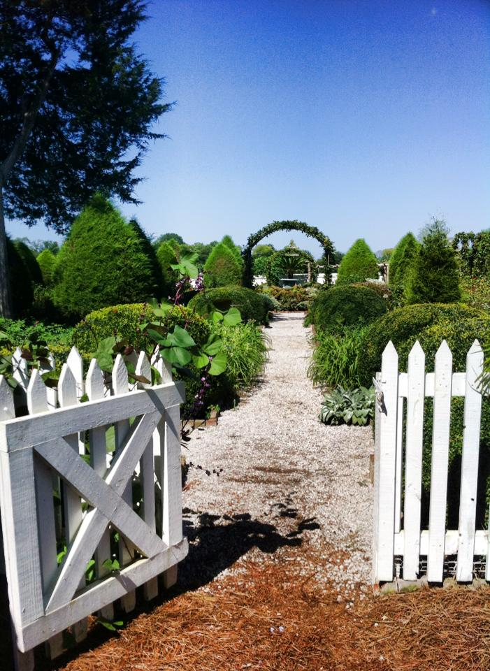 View of the largest historic garden at Carnton Plantation